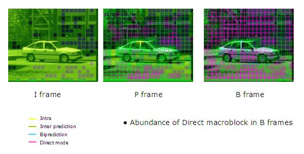 macrobloc partitions in h.264